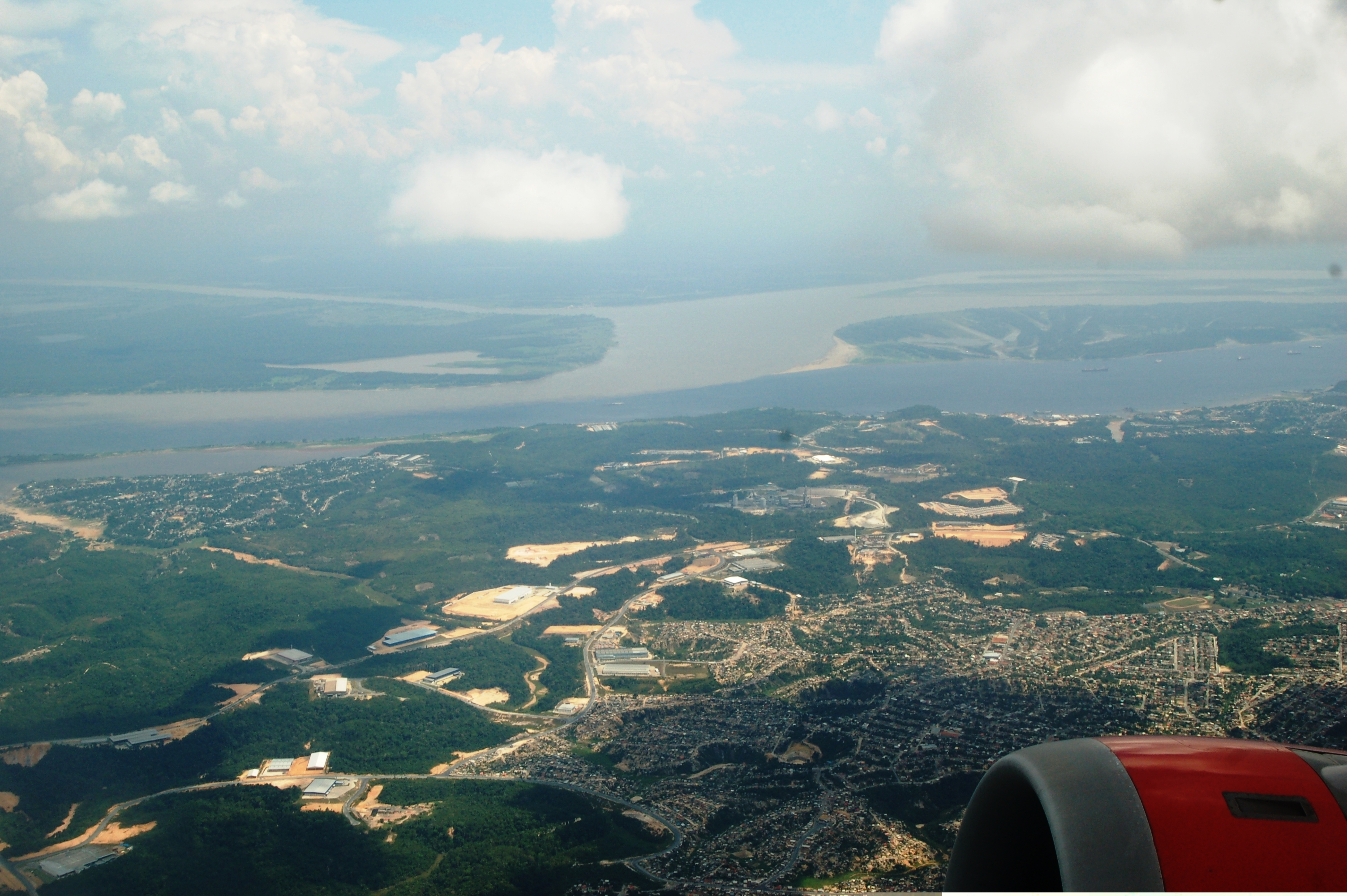 convergence of Rio Negro and the Amazon River, near Manaus, Brazil